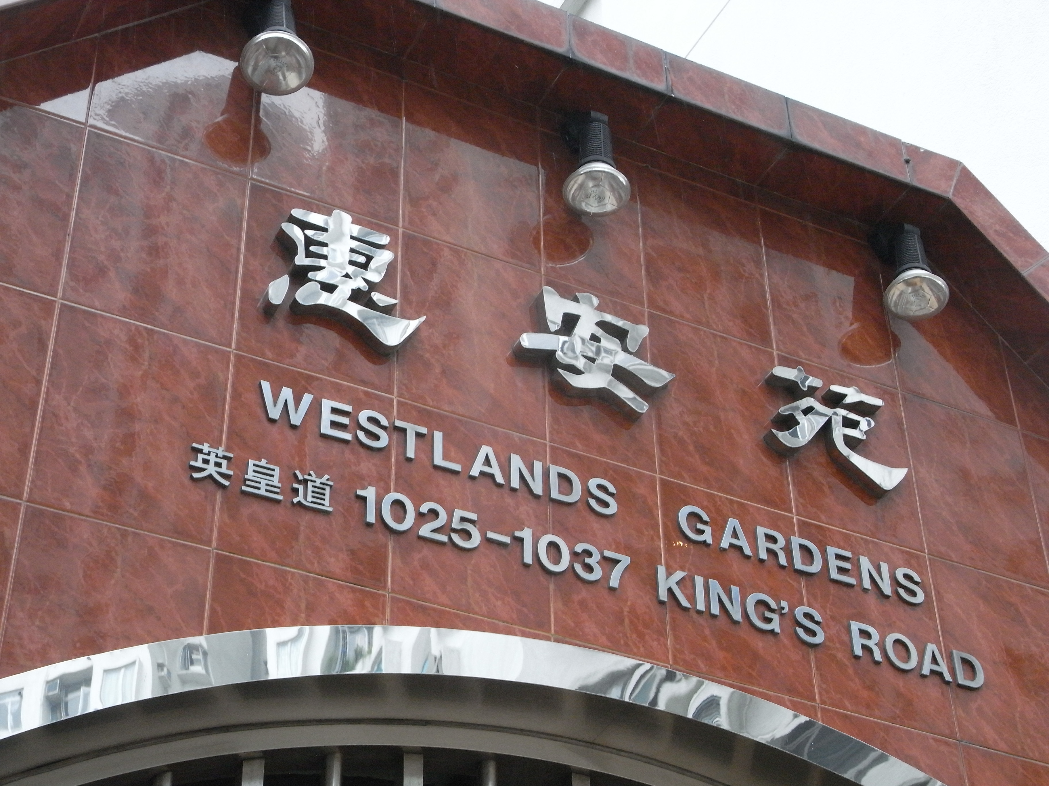 香港島東區